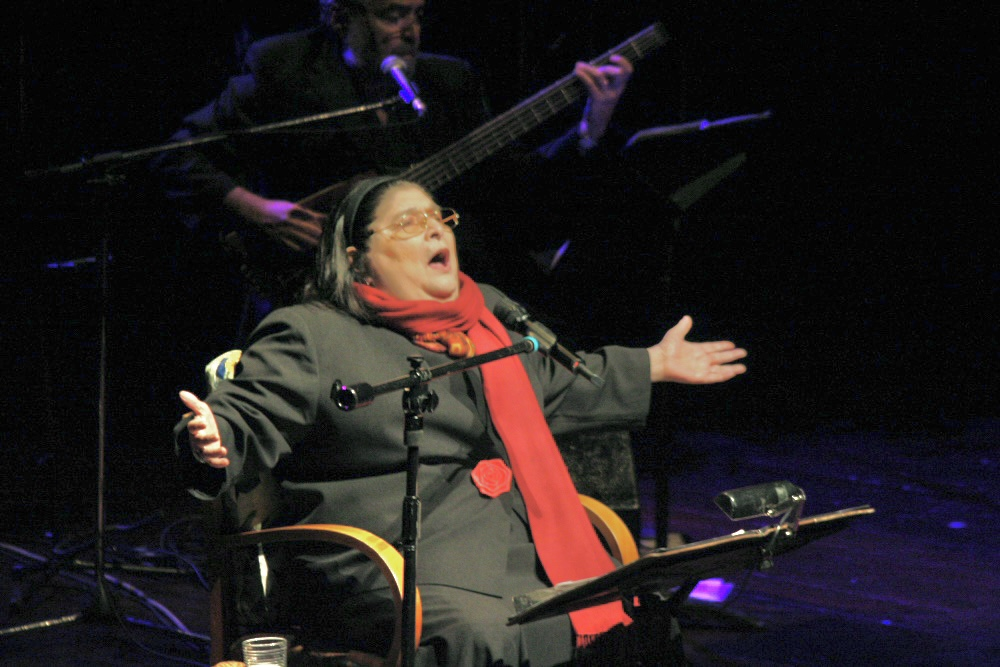 Mercedes Sosa (Argentina). Teatro Nacional Rubén Darío. Managua, Nicaragua.